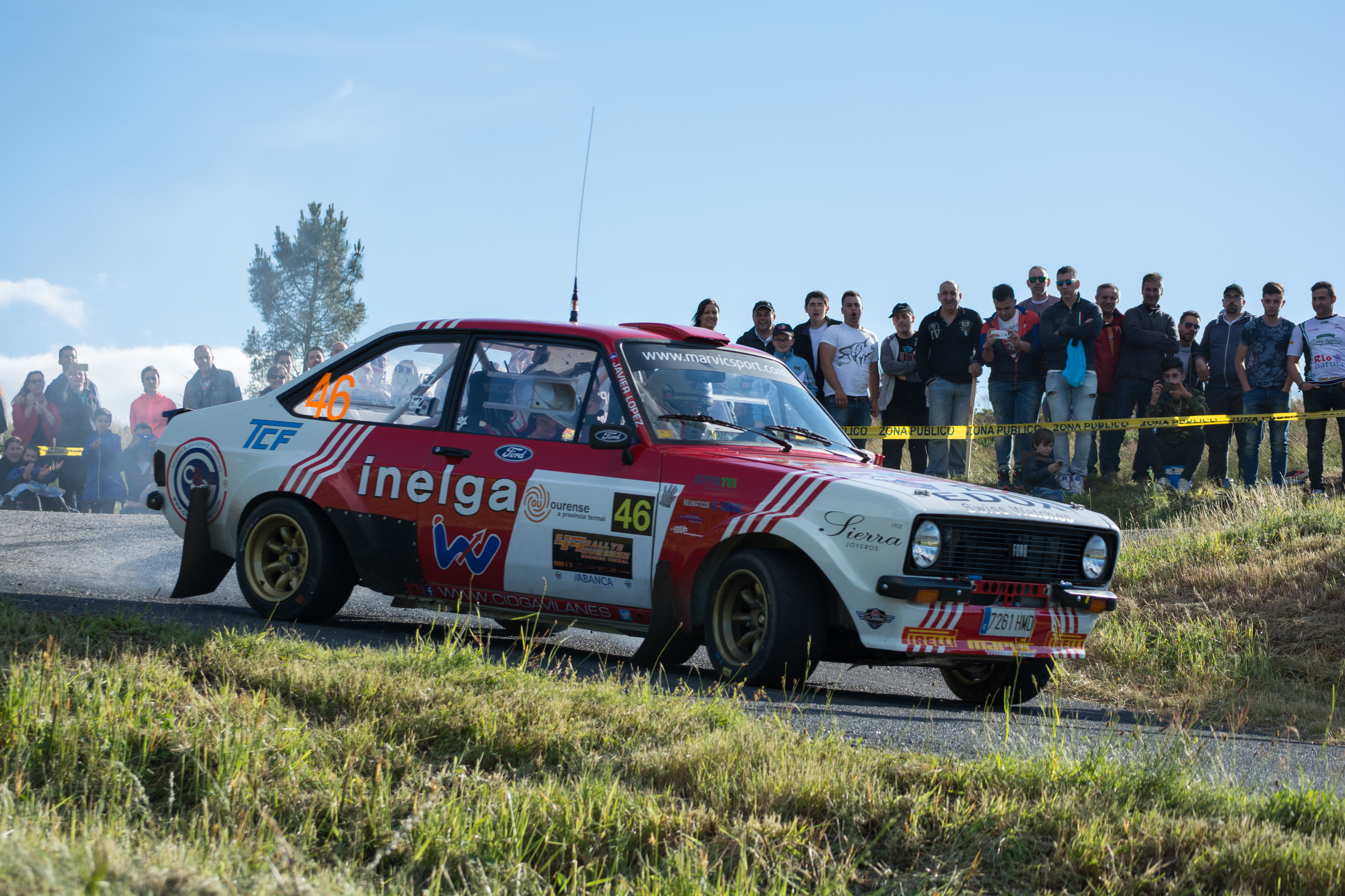 '49 TRally de Ourense ' in 2016, in the city of Ourense, scoring for the CERA.